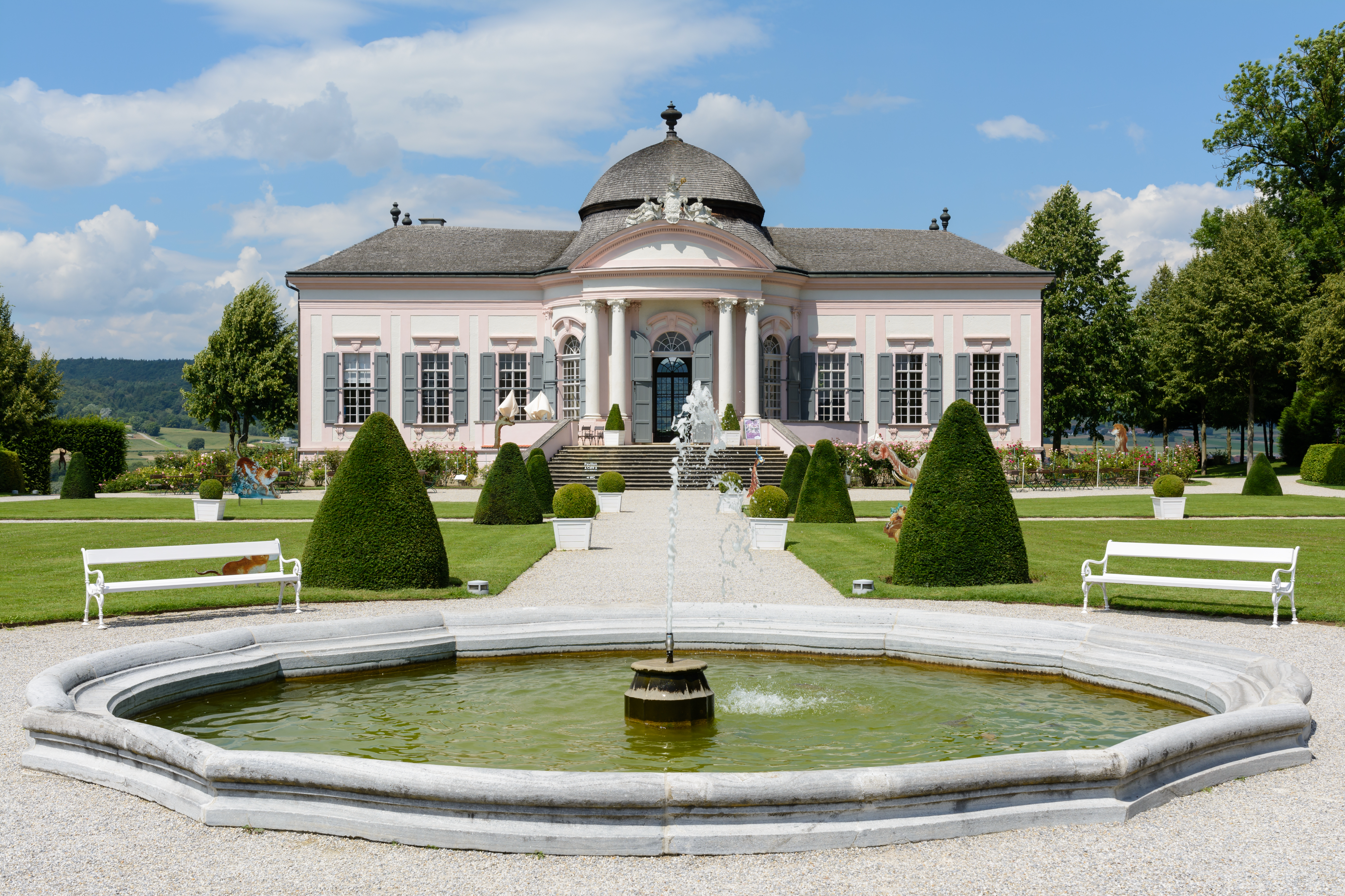 Garden Pavilion in the park of Melk Abbey, Lower Austria